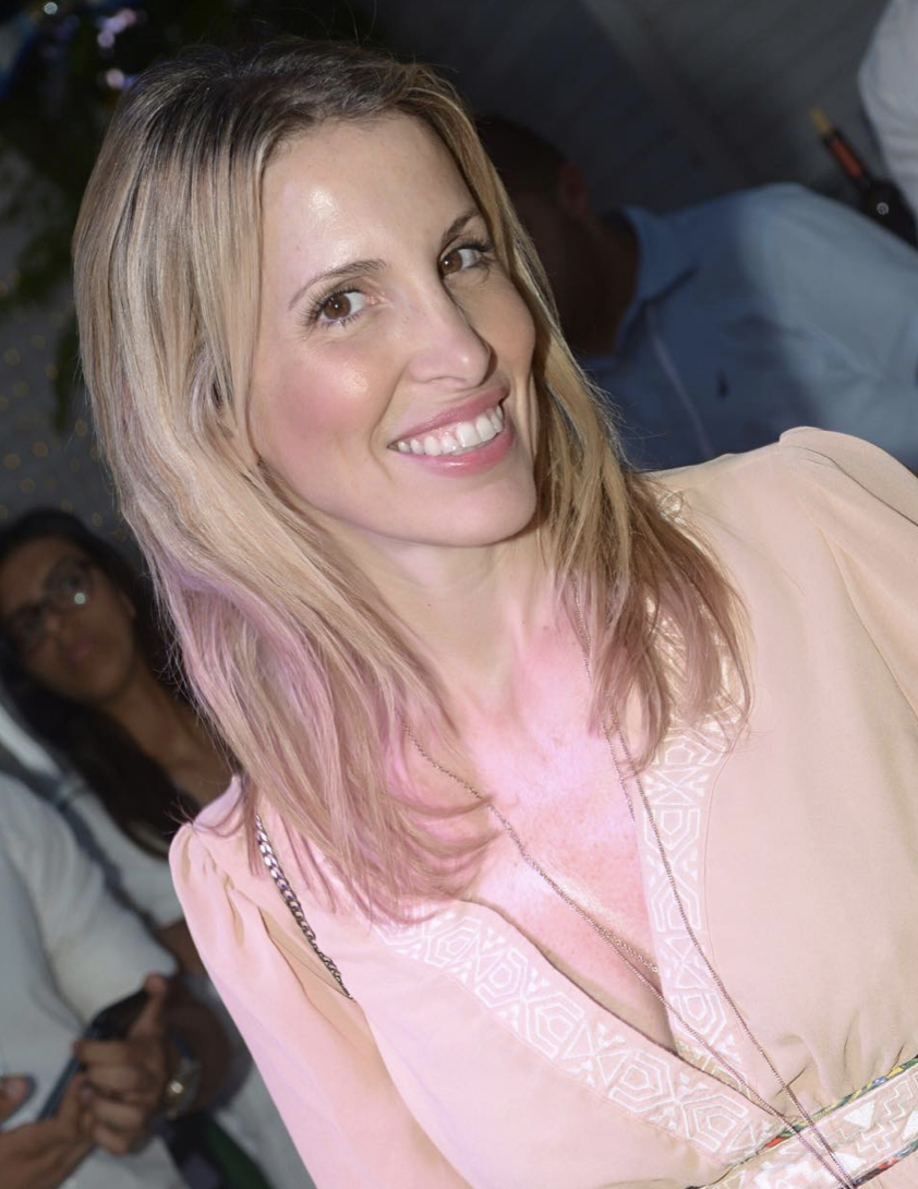 Galit at Rona Ramon's lecture